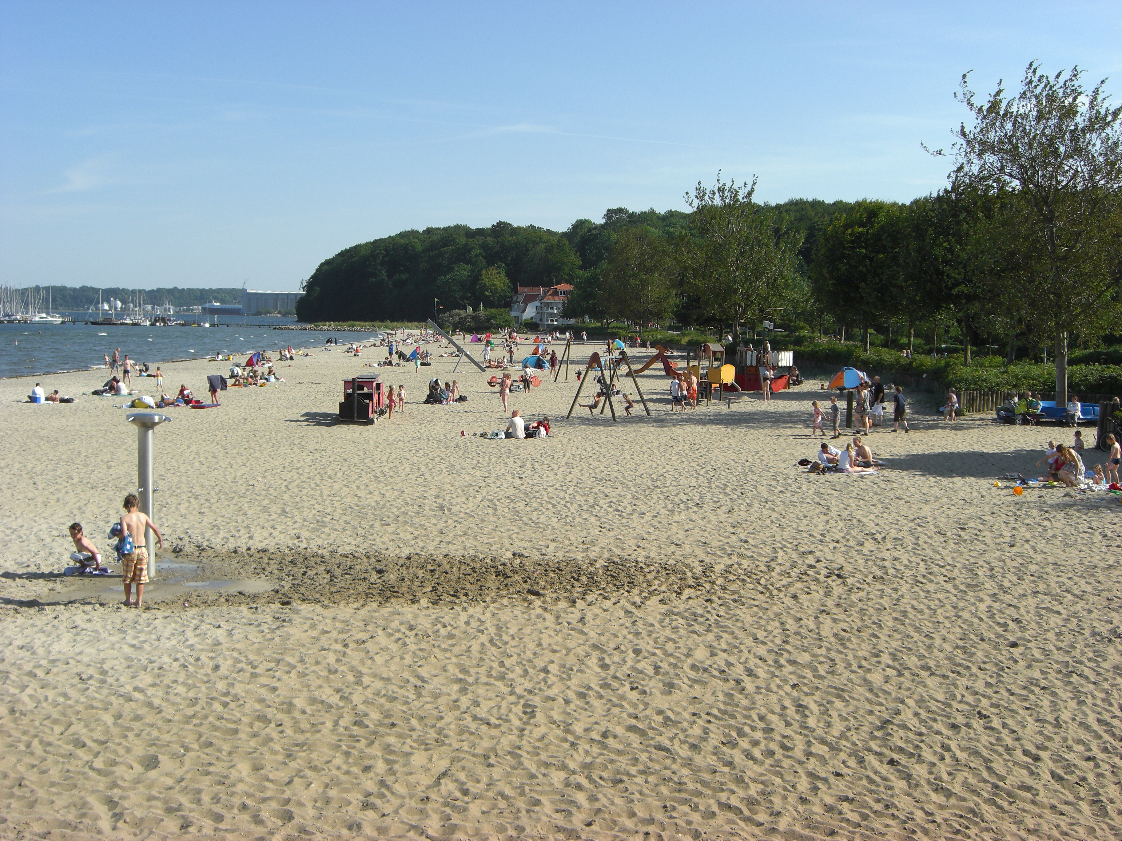 beach of wassersleben